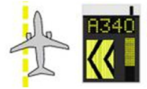 Visual docking guidance system